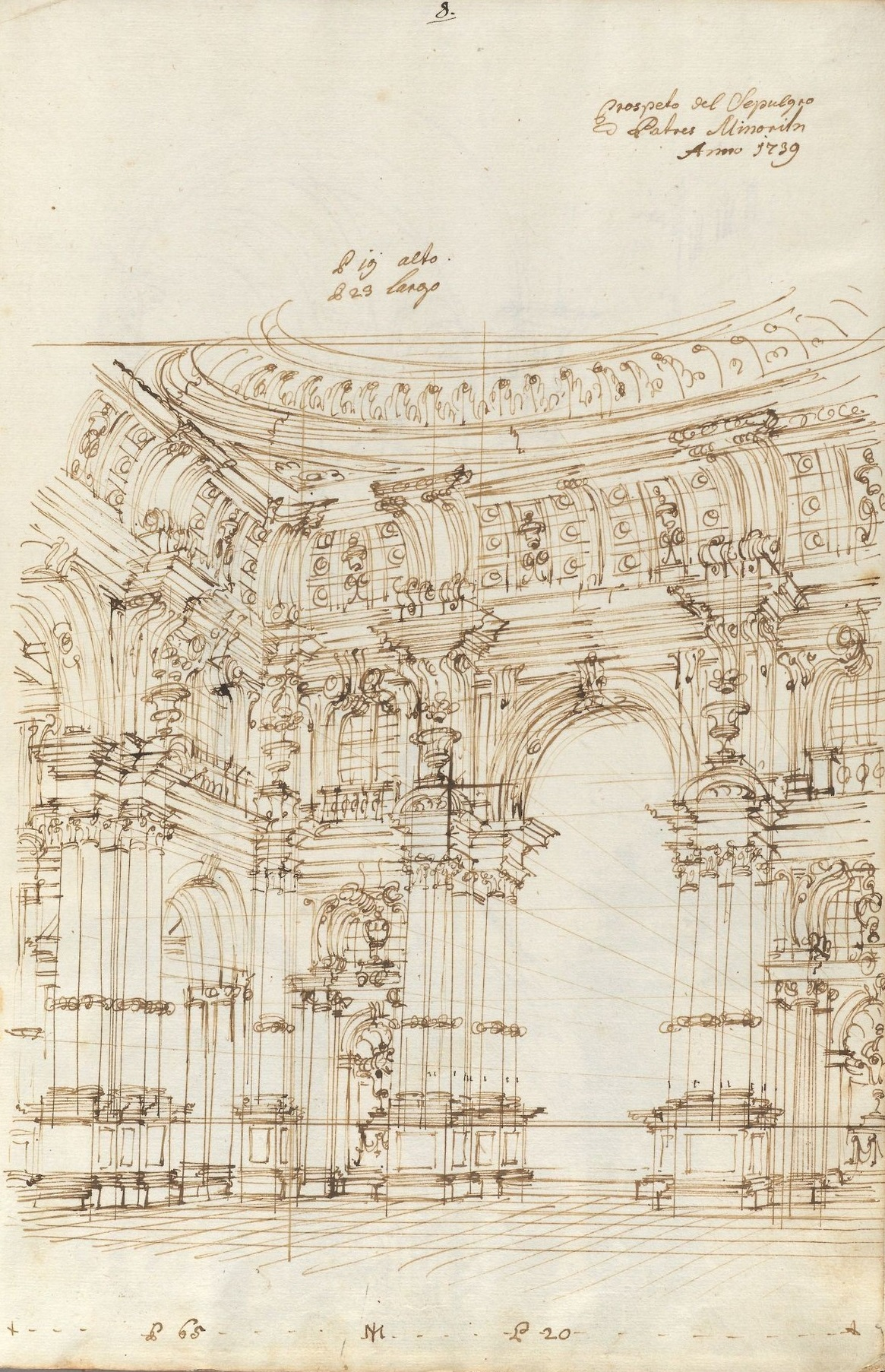 Image from the sketchbook of Italian designer and architect Giuseppe Galli Bibiena (1696-1757). MS Typ 412, Houghton Library, Harvard University